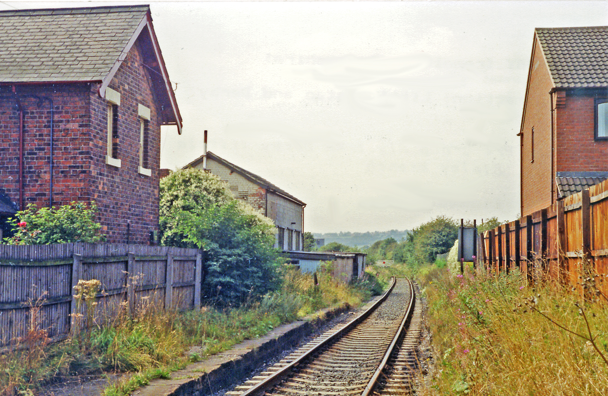 Denby station (remains), 1990 View SW, towards Little Eaton Junction and Derby: ex-Midland Derby - Ripley line, closed to passengers 1/6/30, but remained open for excursions, for freight until 1963; coal traffic continued as far as Denby, as is evident from the used track here in 1990 - which seems to have been renewed. There is talk of restoring a passenger service between Derby and Ripley. Eitors Note: Notreally feasible due to the number of level croosings on a very short line. The track was lifted in 2012